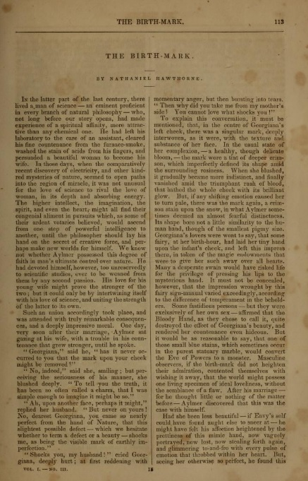 The first page to the short story "The Birth-Mark", published in The Pioneer, March 1843, p. 113. Edited and published by James Russell Lowell. This is the first publication of Hawthorne's story. Source